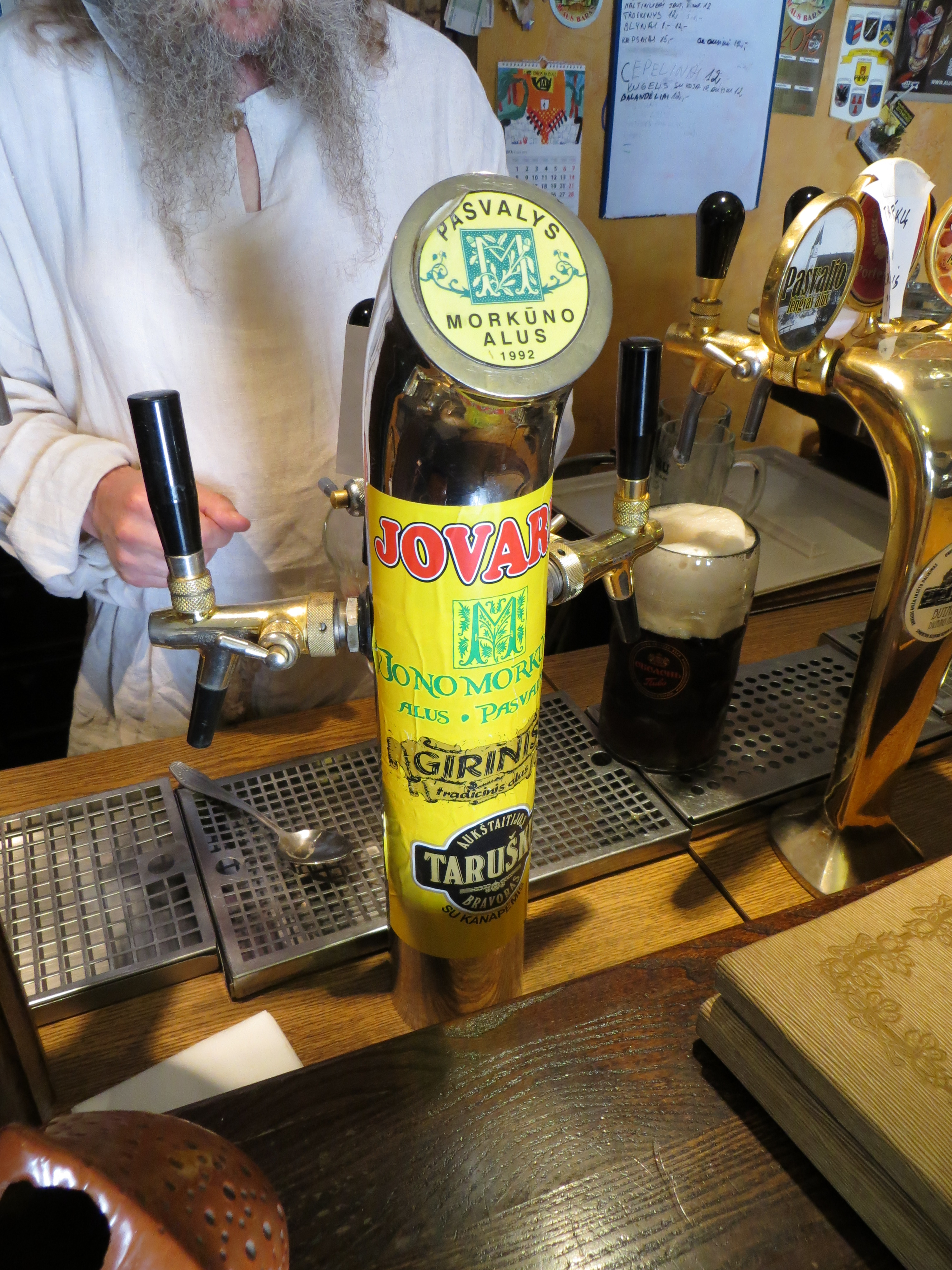 The owner of Jovaru Šnekutis in Vilnius, Aurimo Vaškevičiaus, pouring me a glass of Pasvalio Lengvas Alus, a 5.2% abv traditional ale.